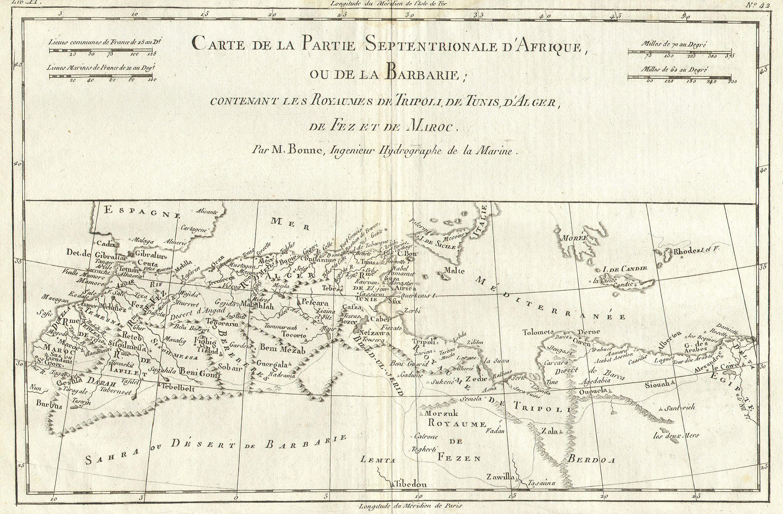 This remarkable map of North Africa’s Barbary Coast (Morocco, Algeria, Tunisia, Libya). Bonne was the successor to Bellin as head Engineer of the French Hydrographe del la Marine Department. This region is known for the terrible pirates who, for centuries, terrorized the Western Mediterranean. Towns, churches, cities and mountains are depicted as miniature representations of themselves. This map is highly detailed and beautifully crafted.